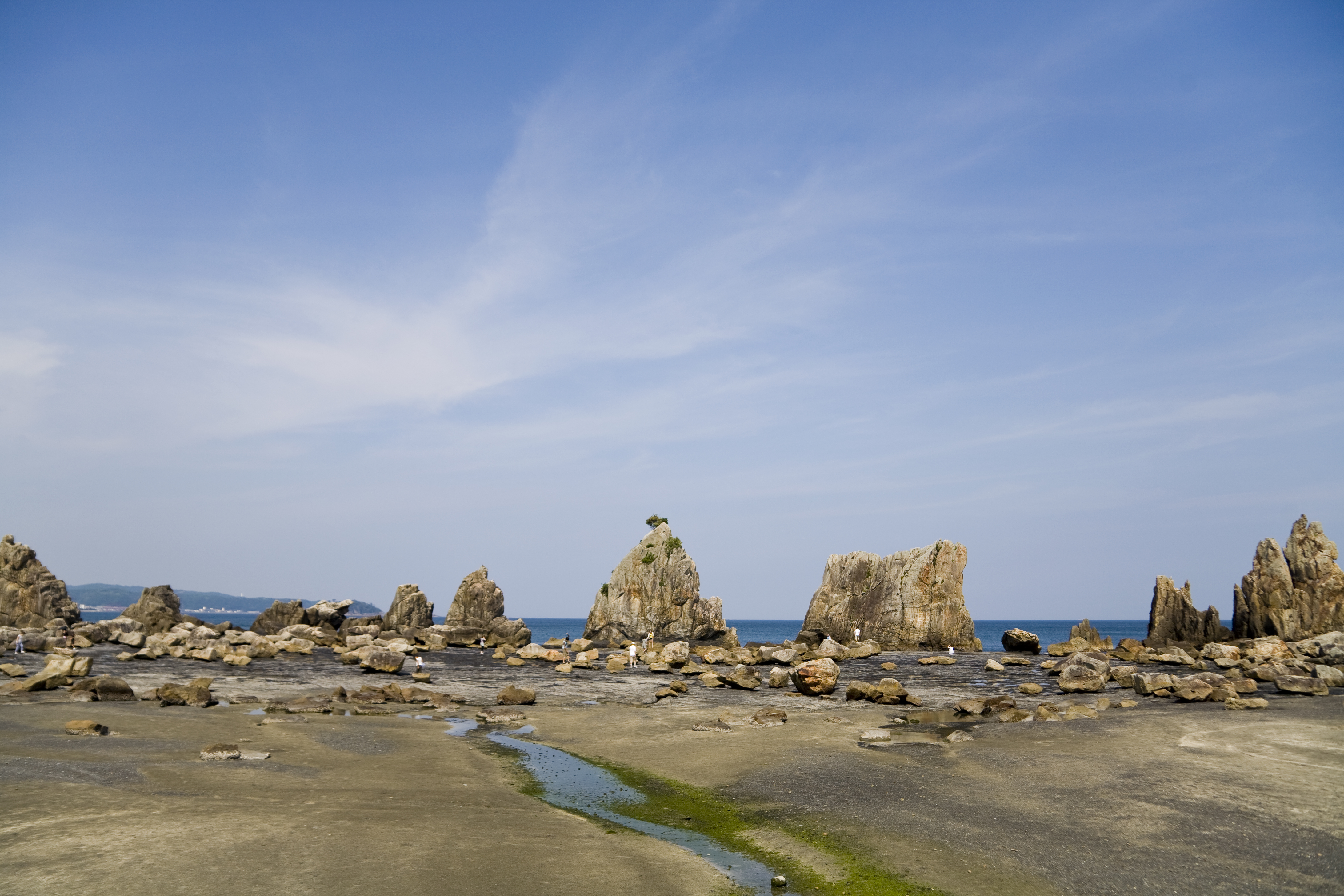 Tourist spot of Japanese country Wakayama Prefecture Higashimuro-gun Kushimoto-cho.